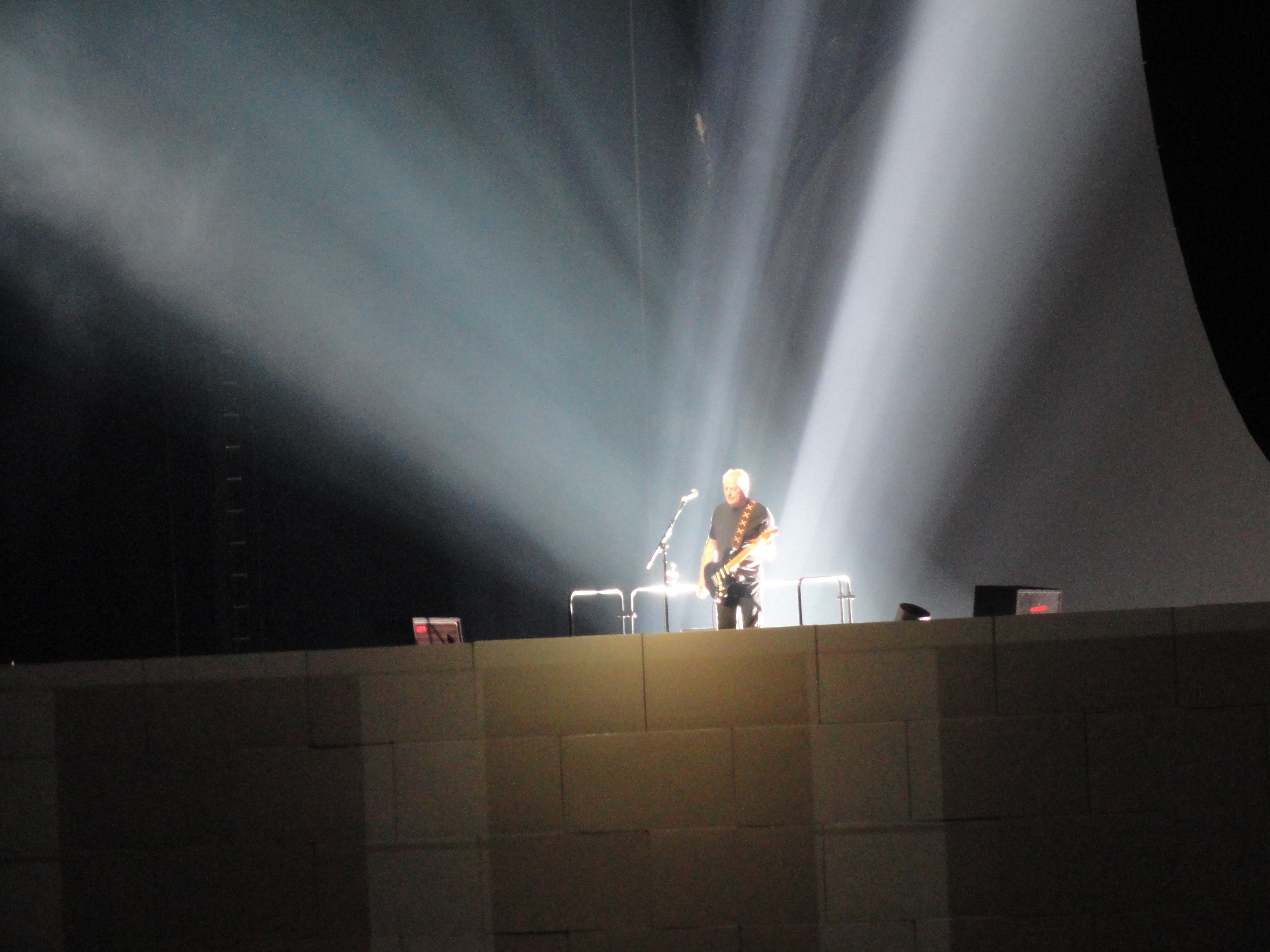 David Gilmour, The Wall Live in The O2, London